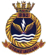 Emblem of No. 892 Naval Air Squadron, Fleet Air Arm, Royal Navy. 892 NAS was operational 1942-1943, 1945-1968, and 1969-1978.